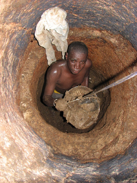 A toilet emptier passing the bucket full of faecal sludge to his assistant. The man works without gloves, boots and mask, because these are too expensive. Additionally, boots would be useless as in the beginning of the emptying process the sludge normally reaches up too the emptiers' knees. Picture taken by Florian Erzinger between August 2007 to February 2008